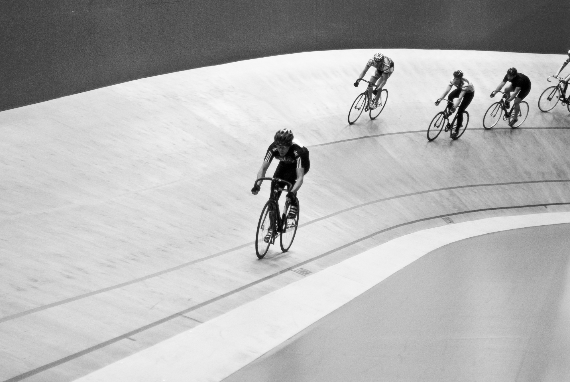 Velodrome in Falun, the only one in Sweden. Teamed up with Komet Club Roleur, 2012